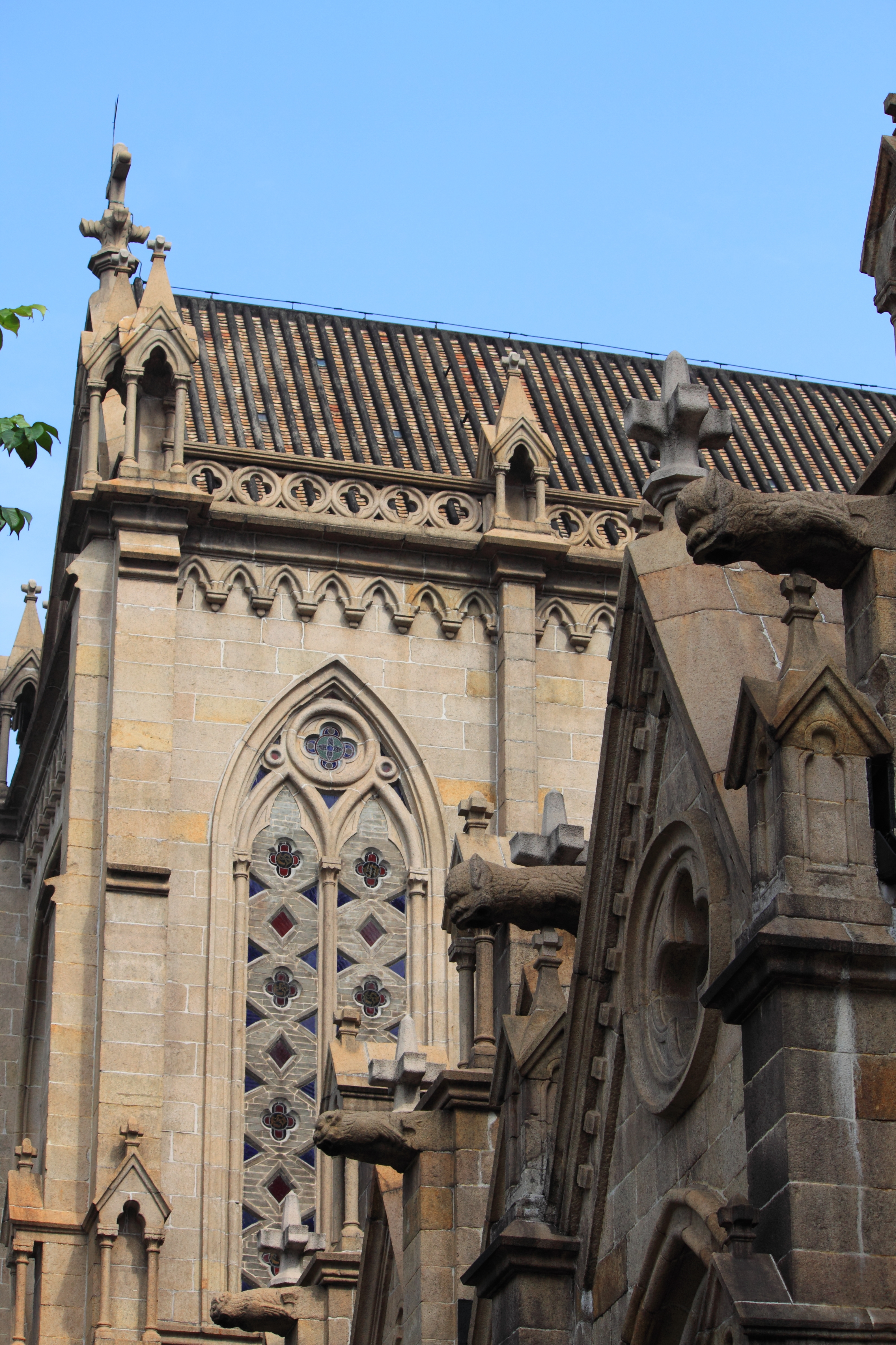 Sacred Heart Cathedral of Guangzhou，in Guangzhou, Guangdong, China.